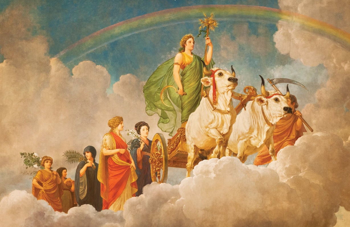 The triumph of Ceres, also known as Europe, followed by the Court of Nations